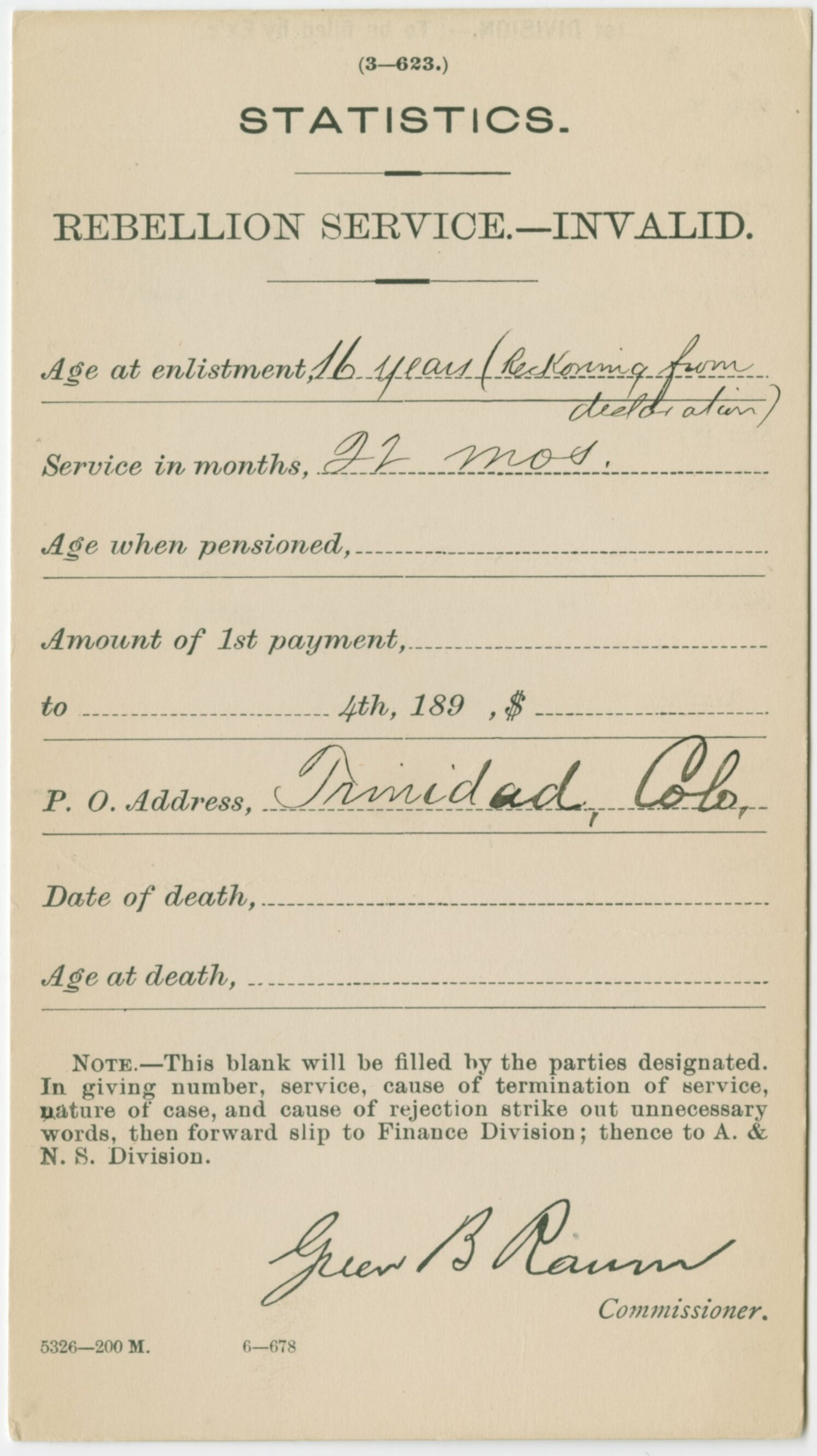 Cathay Williams Pension Denial